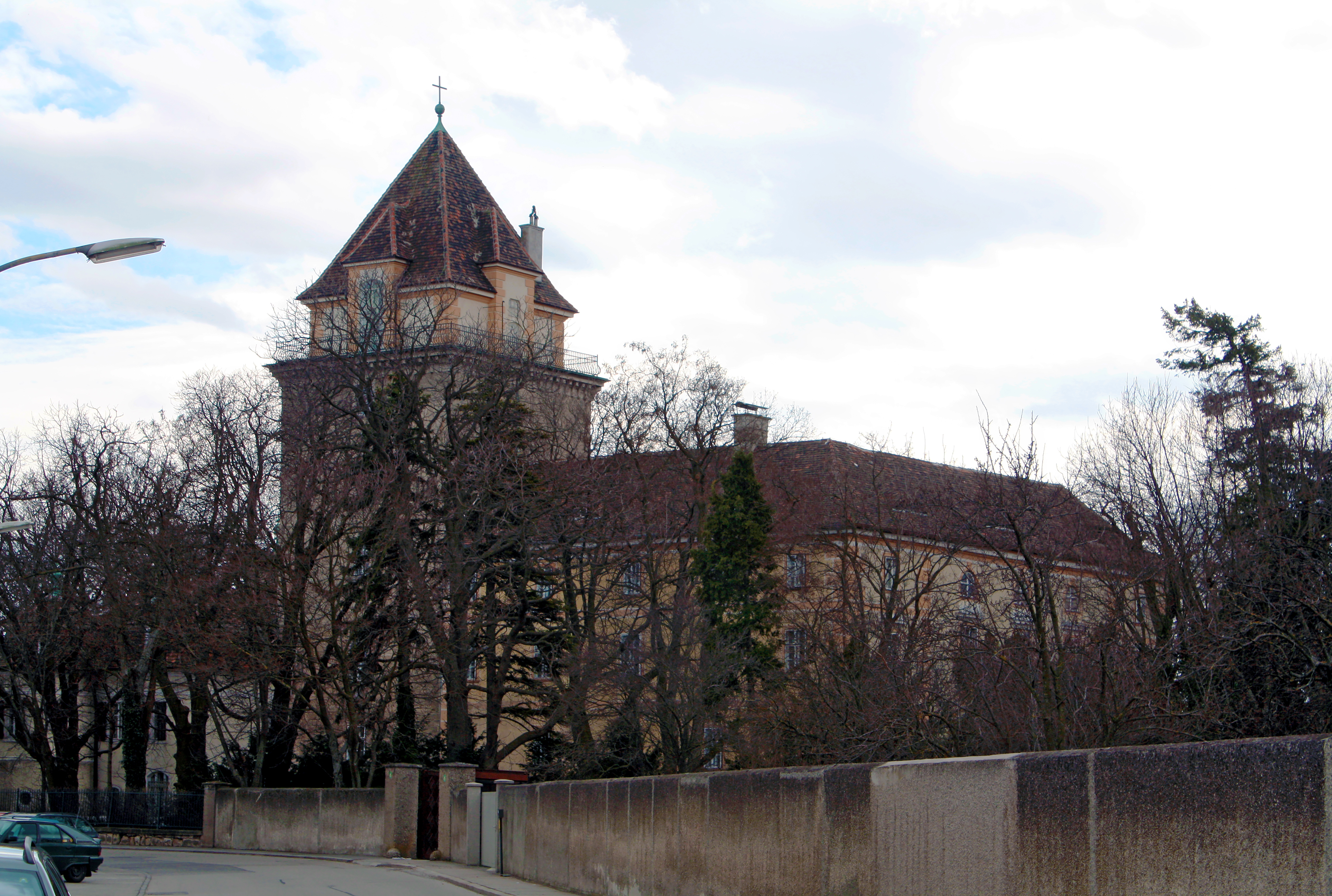 Castle of Leesdorf in Baden bei Wien, Lower Austria